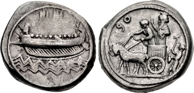 PHOENICIA, Sidon. `Abd`aštart (Straton) I. Circa 365-352 BC. AR Dishekel (29mm, 25.49 g, 12h). Dated RY 6 (360/59). Phoenician galley left; ||| (6 in Phoenician) above, waves below / King of Persia and driver in chariot drawn by two horses left; behind, King of Sidon standing left, in Egyptian dress, holding cultic scepter and votive vase; ‘B (in Phoenician) above. E&E-S Group IV.2.1.f, 1283–4 (D14’/R19); HGC 10, 242; DCA 849; Babelon, Perses 1599. VF, lightly toned. Well centered and struck for issue. Very rare, only 8 examples noted for year 6 by E&E.